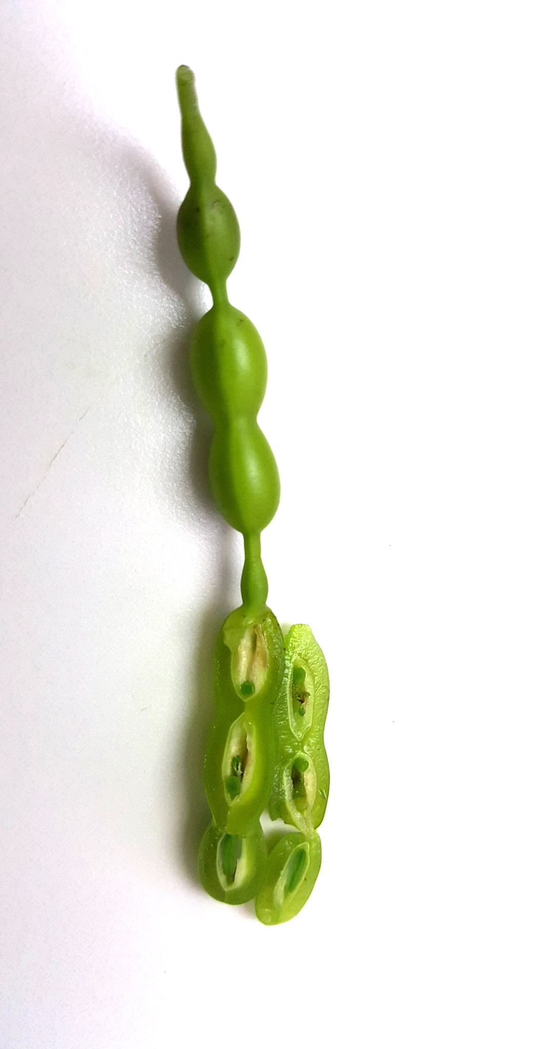 The beans cut